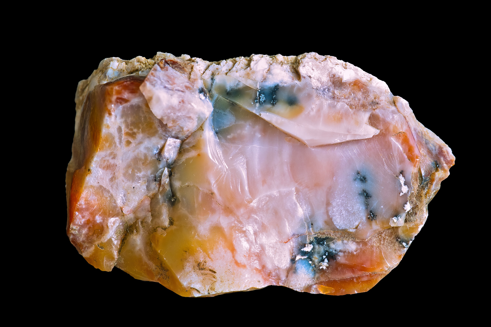 Polychromic opal (rosy / yellow / orange / blueish...). Locality: Bohouskovice near Kremze, Czech Republic. 4×3 centimeters.